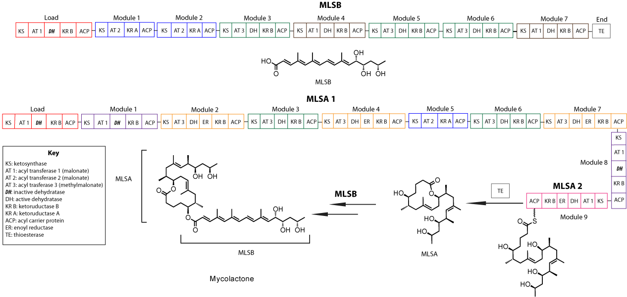 Domain Organization of Mycolactone